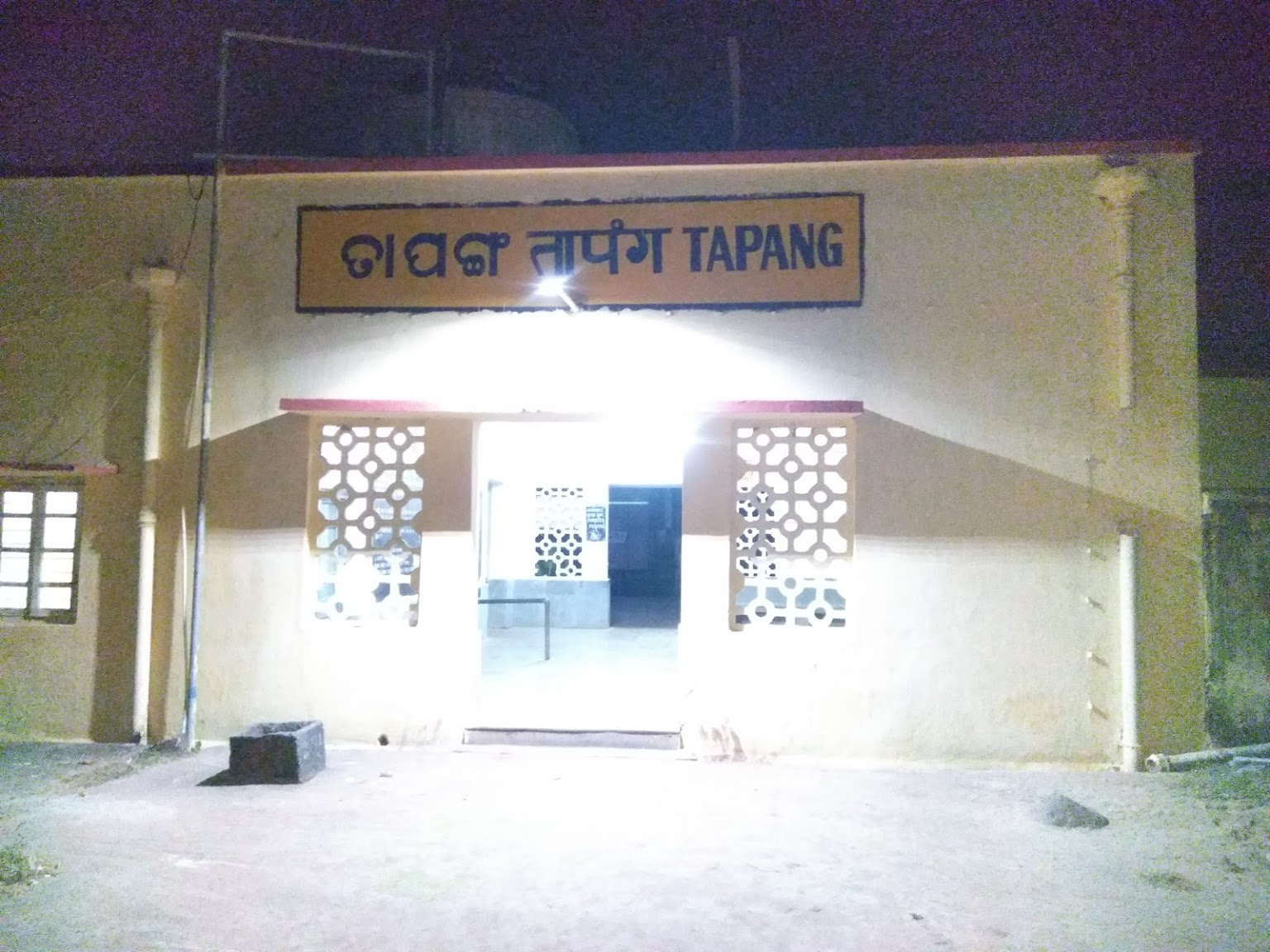 This is the Picture of Tapang railway station